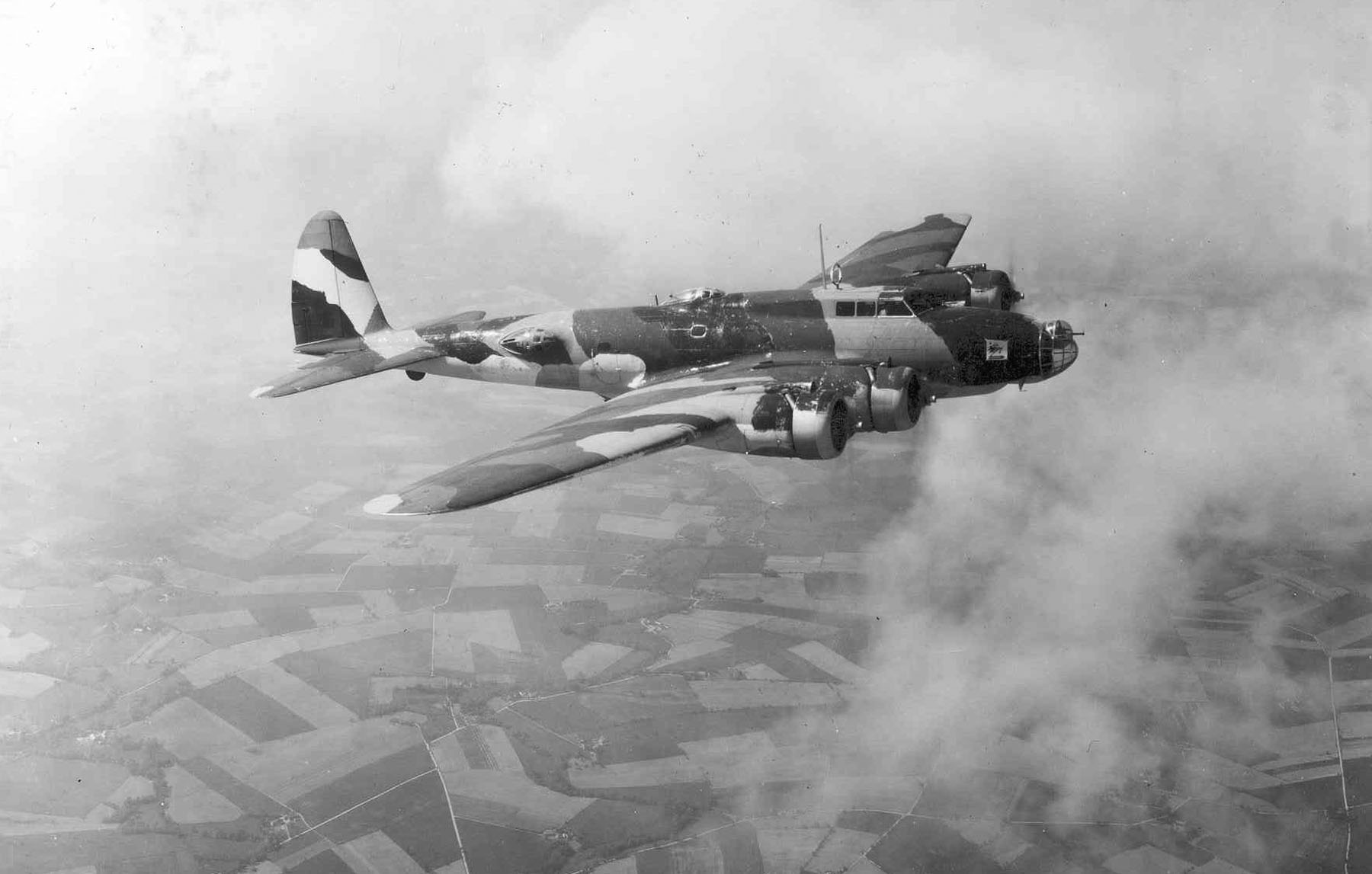 Boeing Y1B-17 with camouflaged paint scheme, assigned to the 20th Bomb Squadron, 2nd Bomb Group, based at Langley Field, Va.